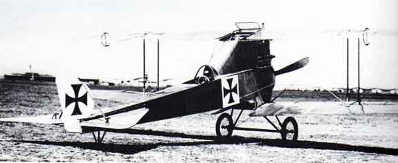 Photo of Lloyd 40.05 WW1 fighter samf4u, 2.jpg